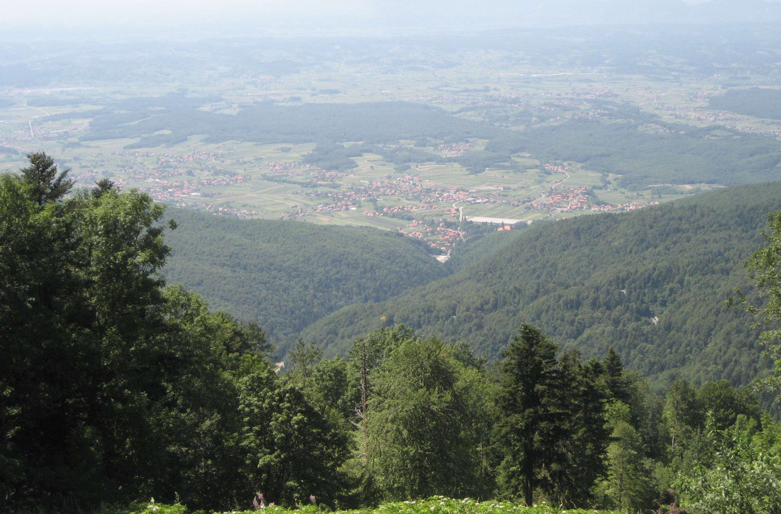 Viwe from the Medvednica to the north